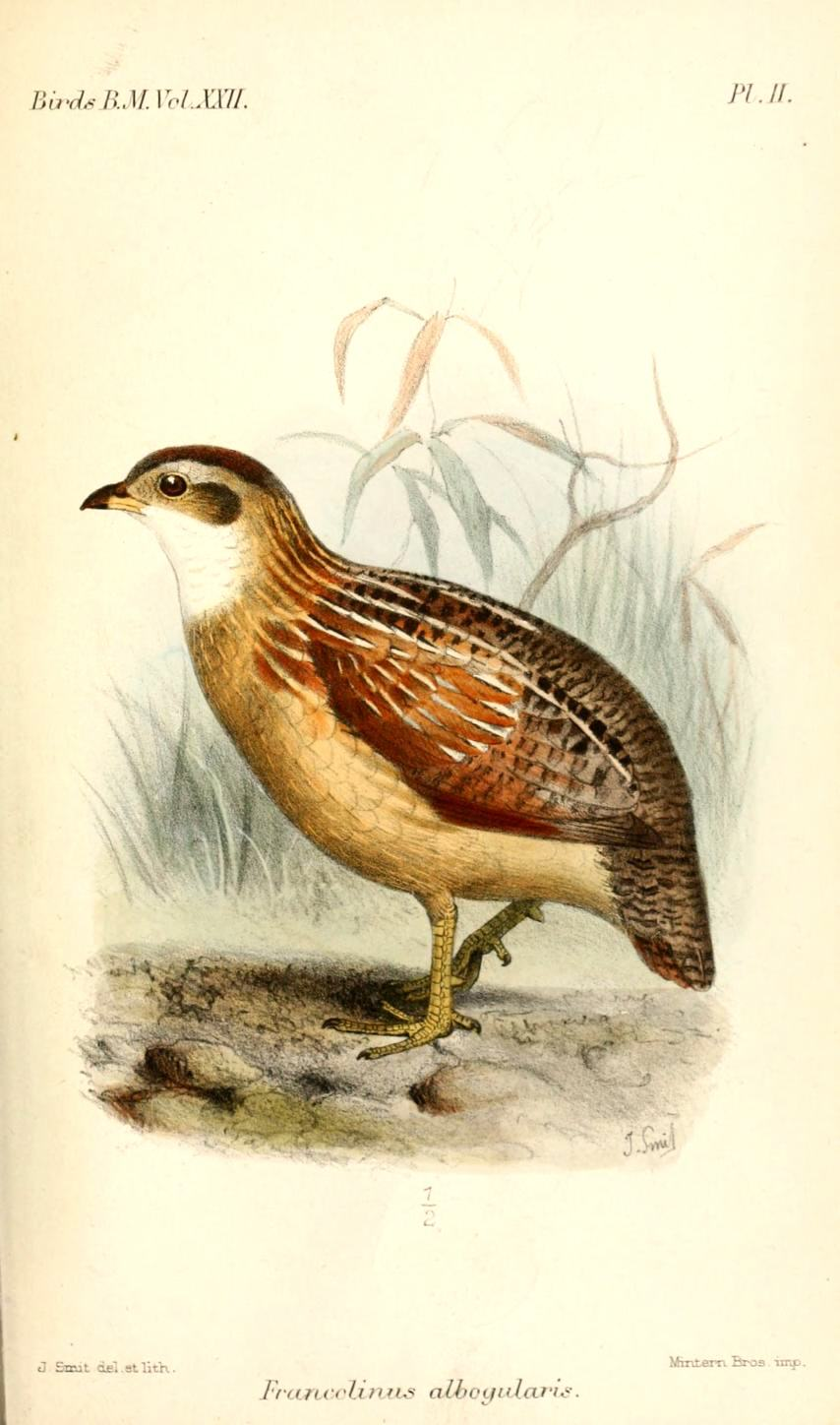 Francolinus albogularis = Peliperdix albogularis, White-throated Francolin